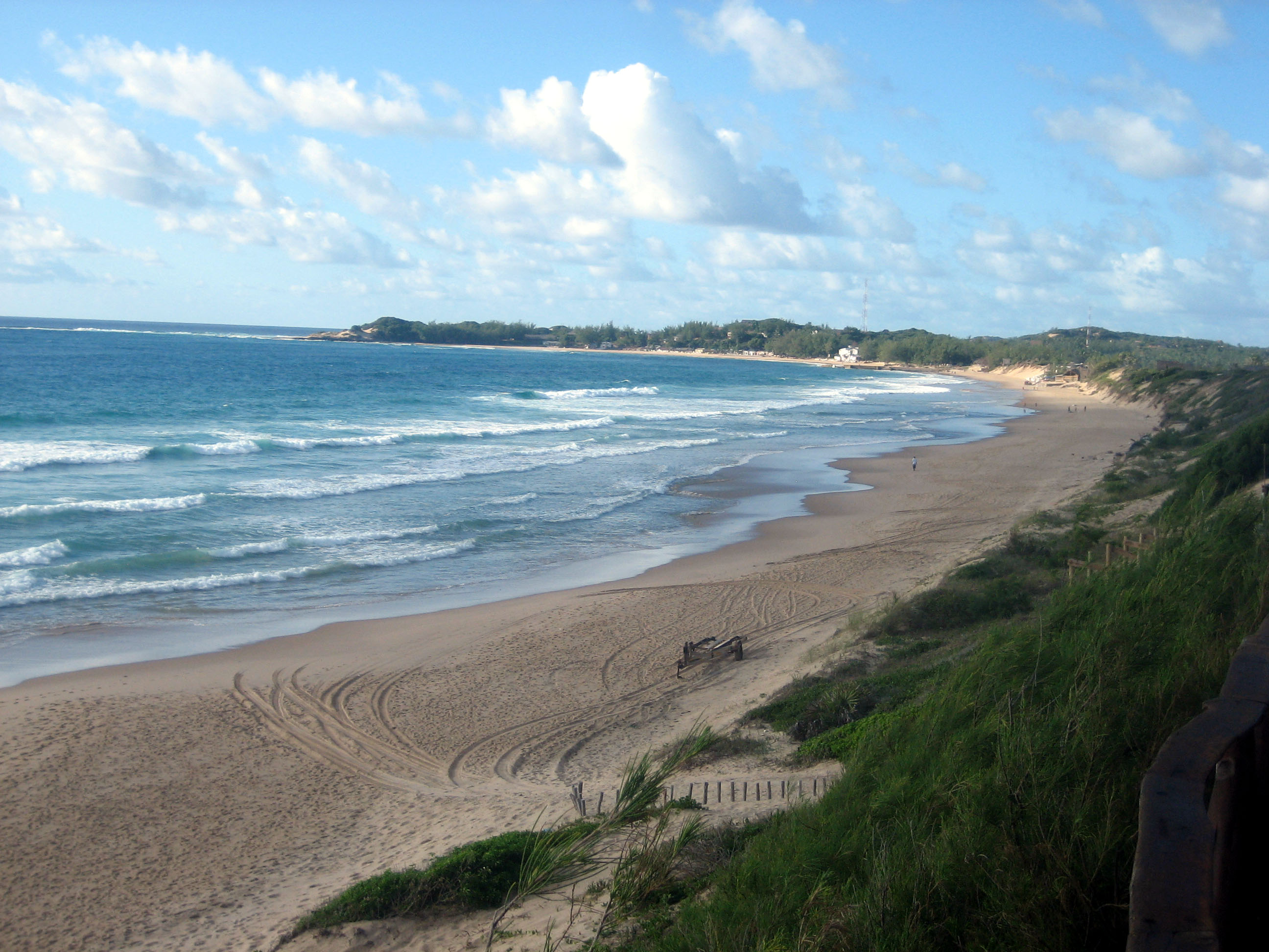 "view from the lodge at Tofo"